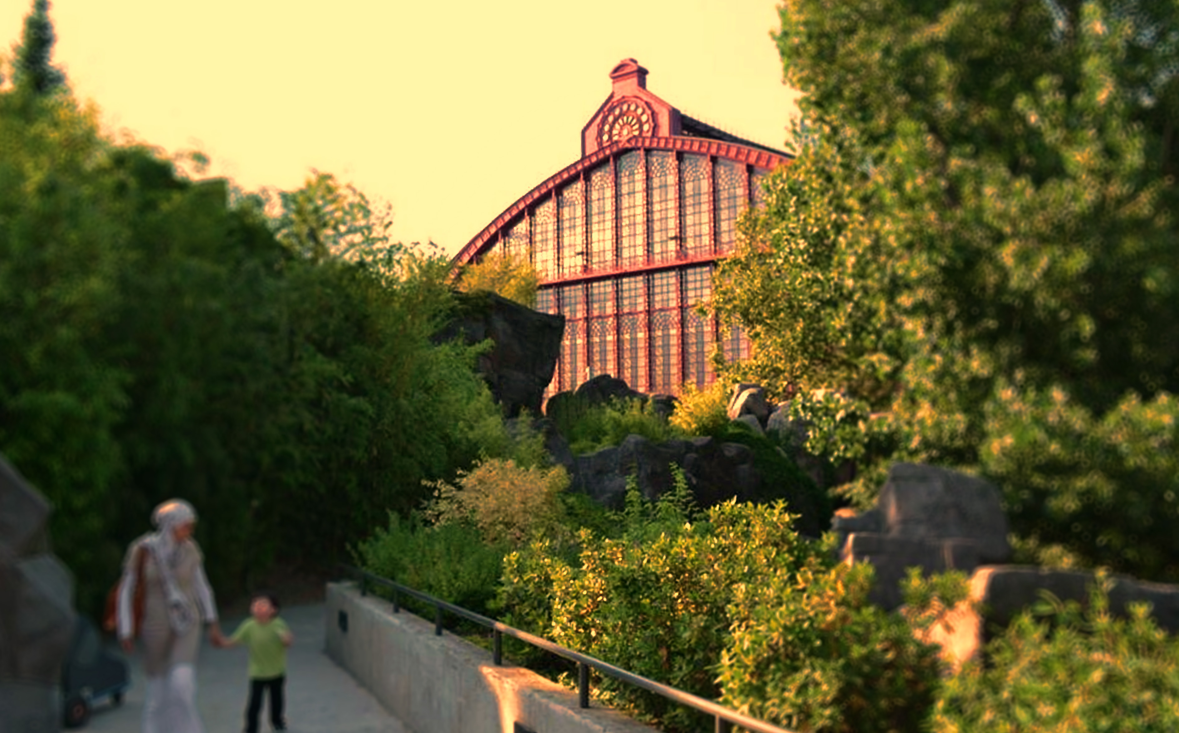 Central Station Of Antwerp